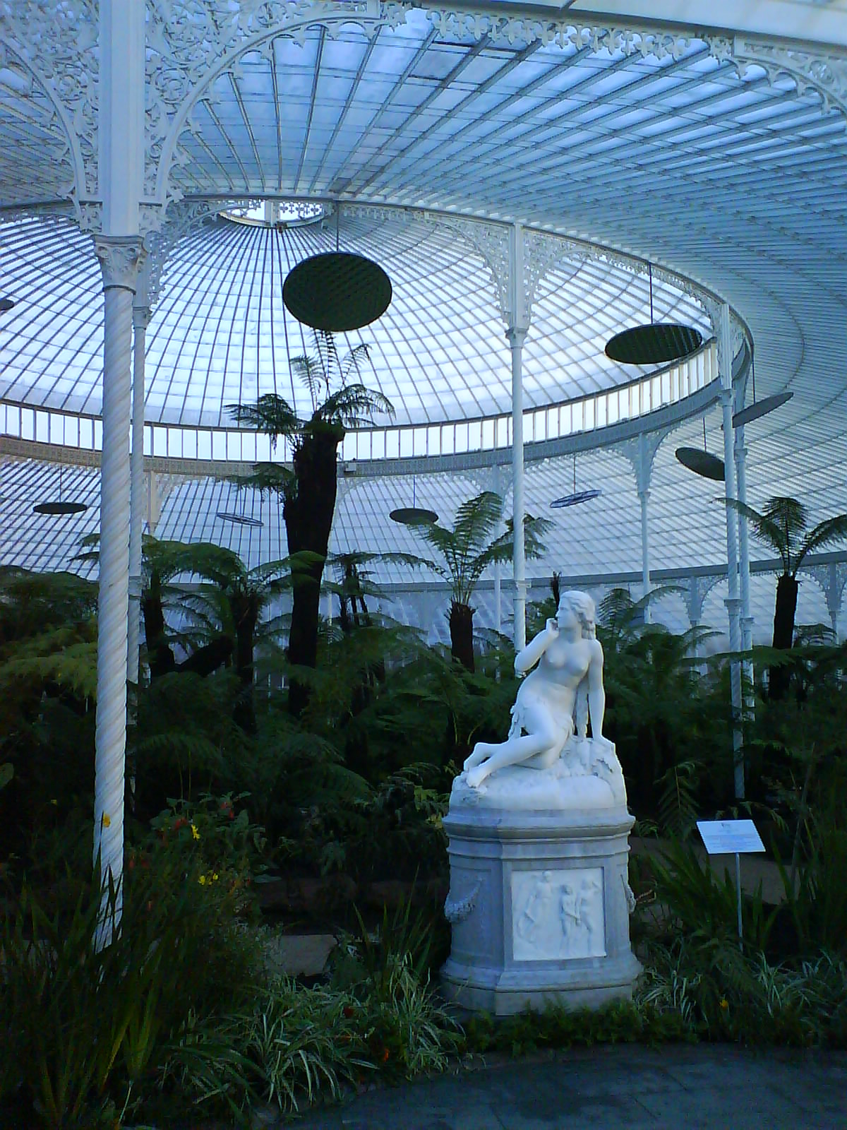 Inside the newly-refurbished Kibble Palace